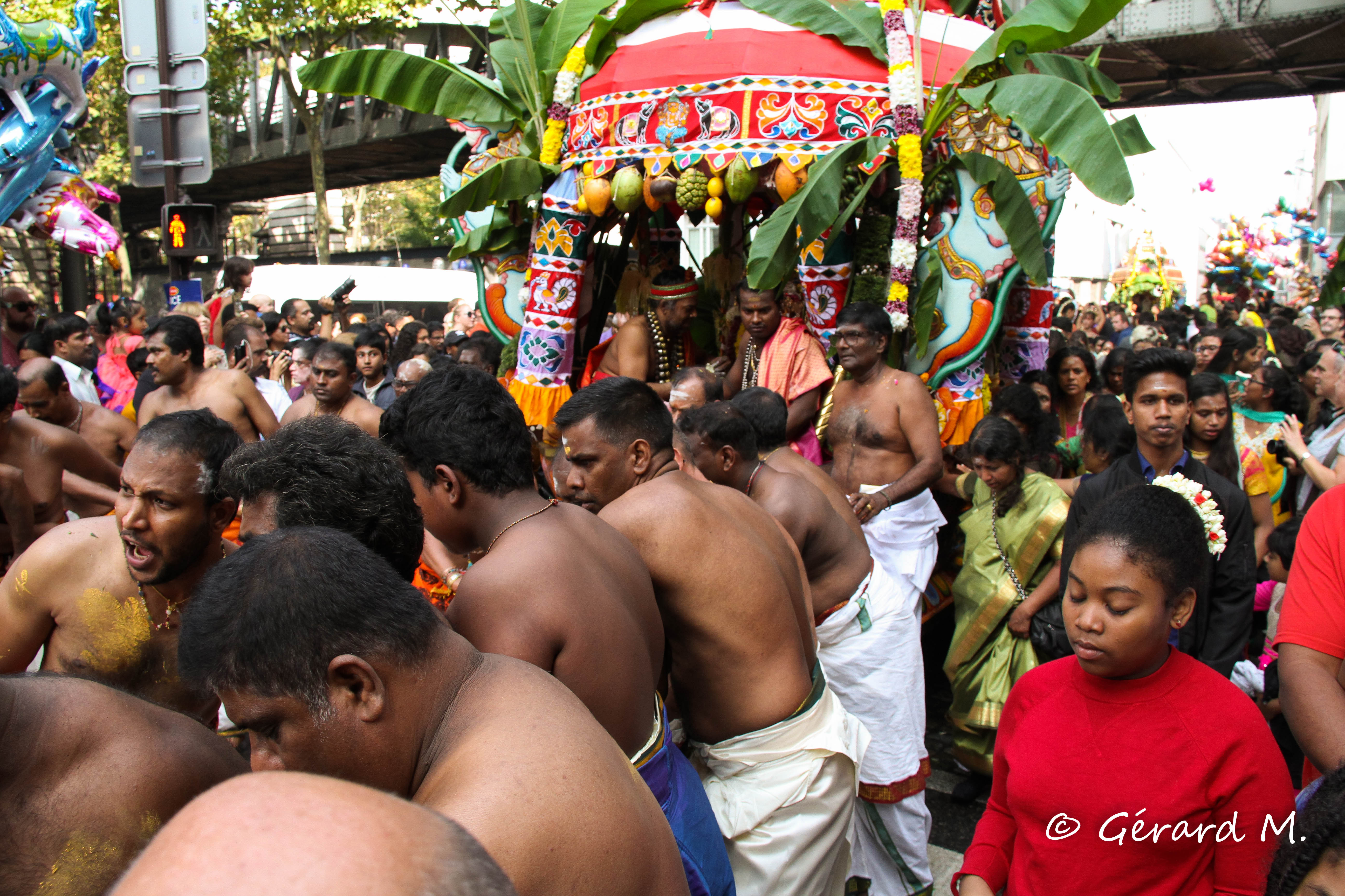 Celebration of the Indian god Ganesh in Paris, France in 2017.